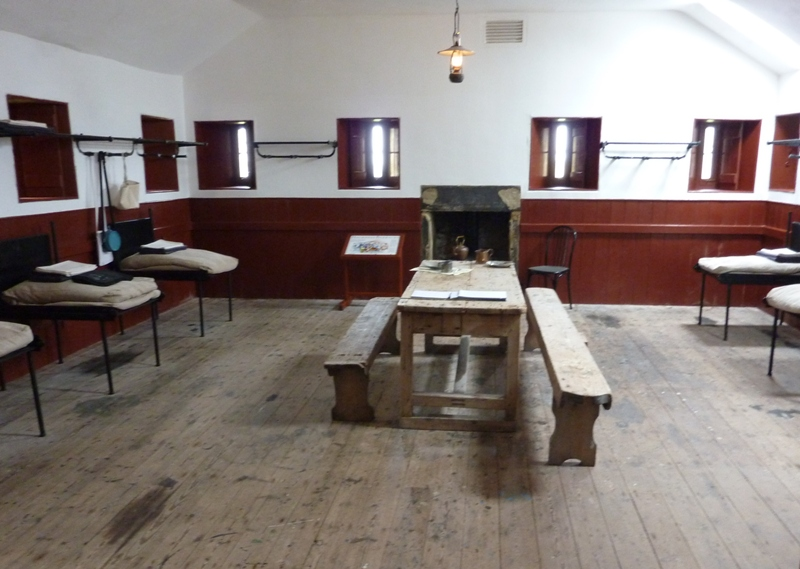 Hackness Martello Tower and Battery, South Walls, Orkney, Scotland. Barracks interior.